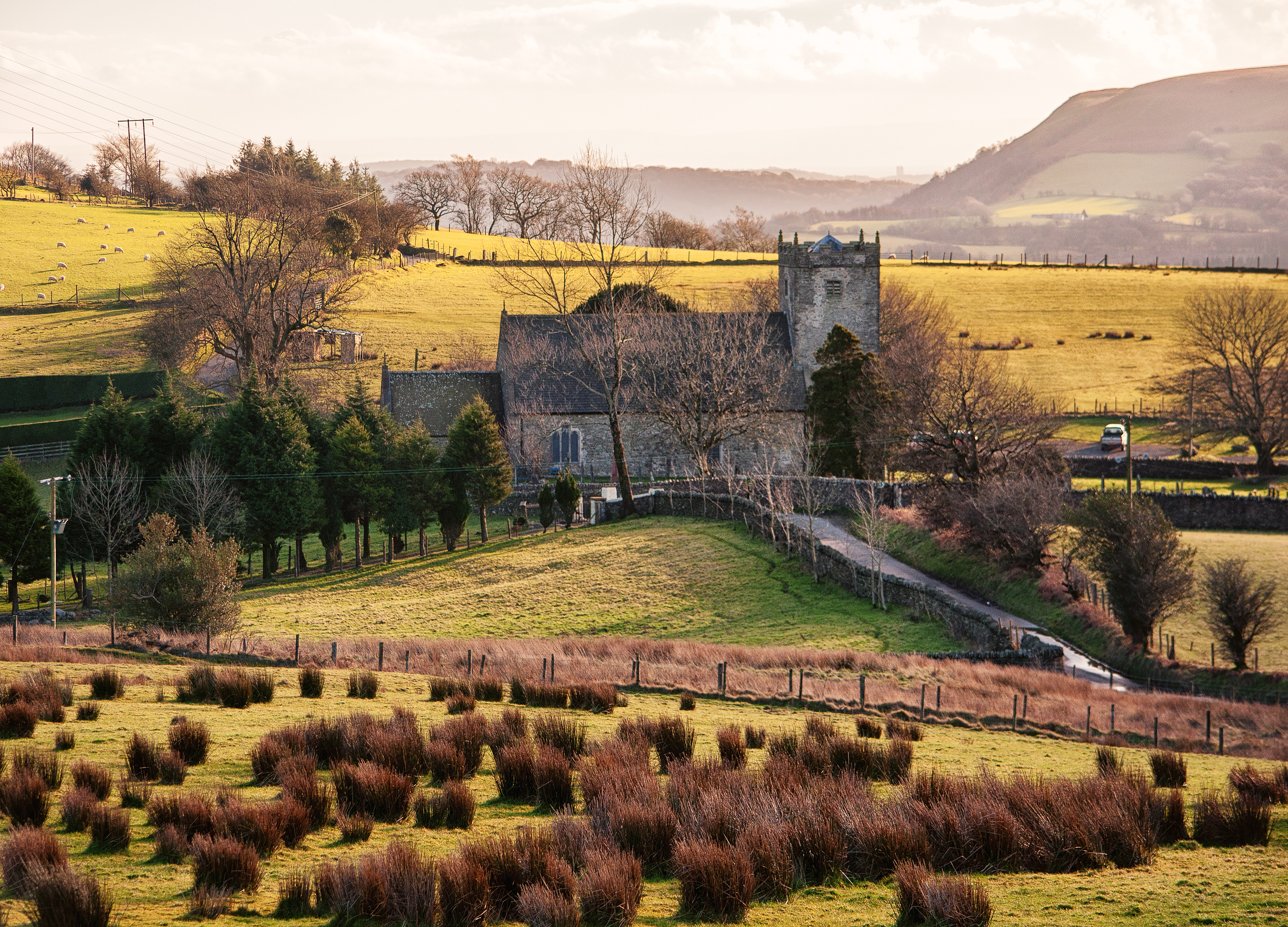 The parish church of Eglwysilan in the county borough of Caerphilly, south Wales